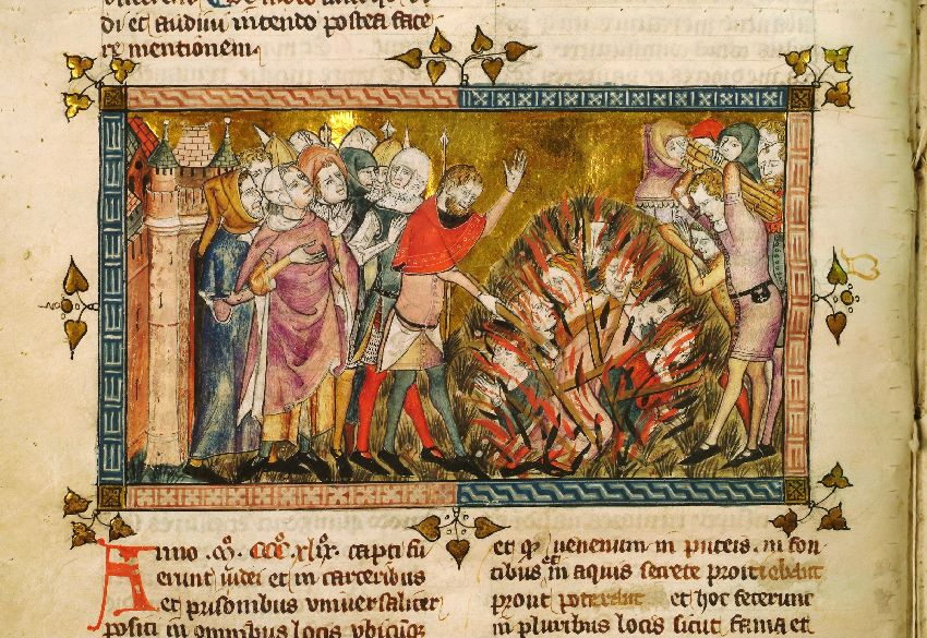 Burning Jews